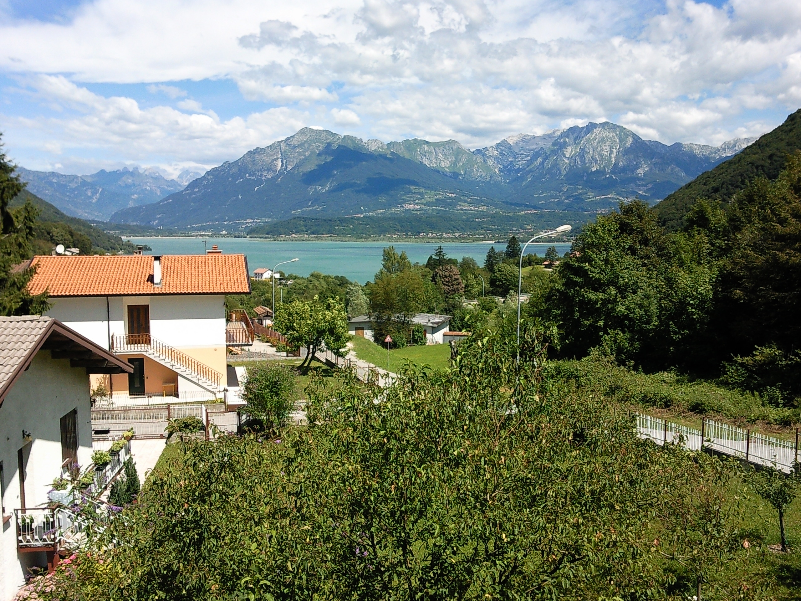 Farra d'Alpago, a commune in the Province of Belluno in the Italian region of Veneto